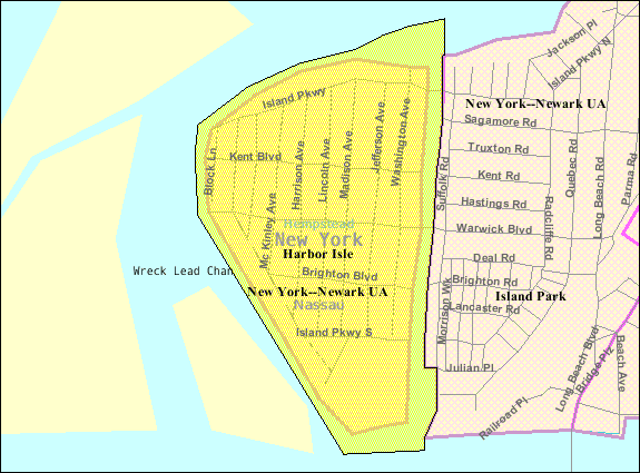 U.S. Census 2000 reference map for Harbor Isle, New York